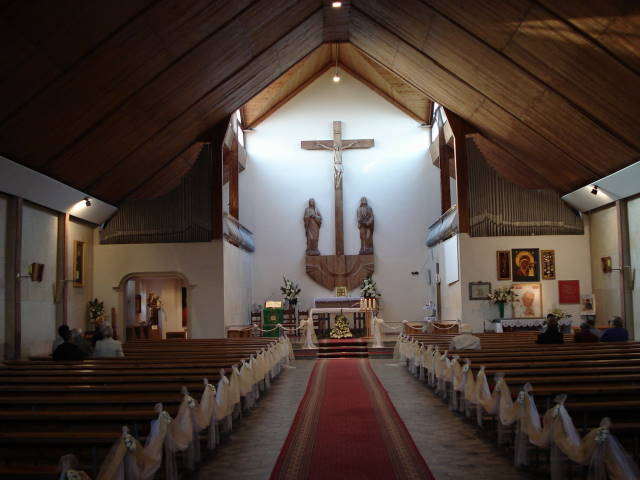 Interior of the Parish Church of Our Lady of Consolation in Poznań